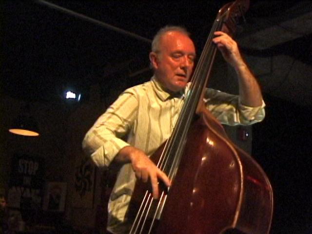 Lisle Ellis performing live in The Living Theatre, New York City